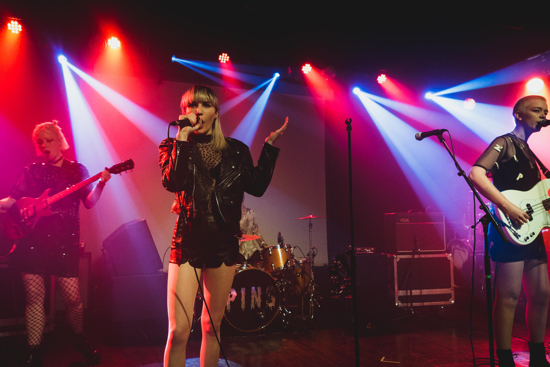 Pins supporting Honeyblood